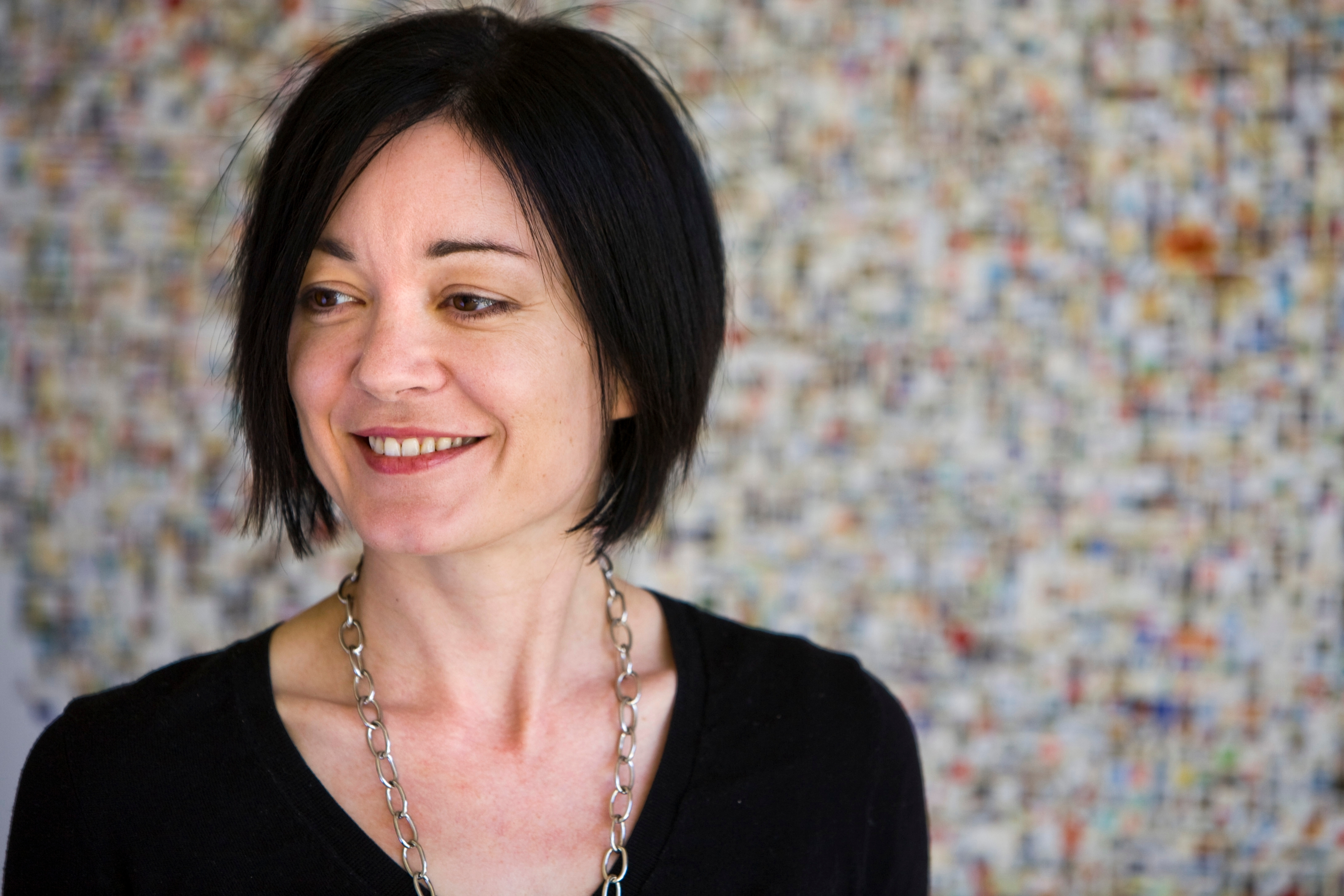 Staff portrait of Sue Gardner.